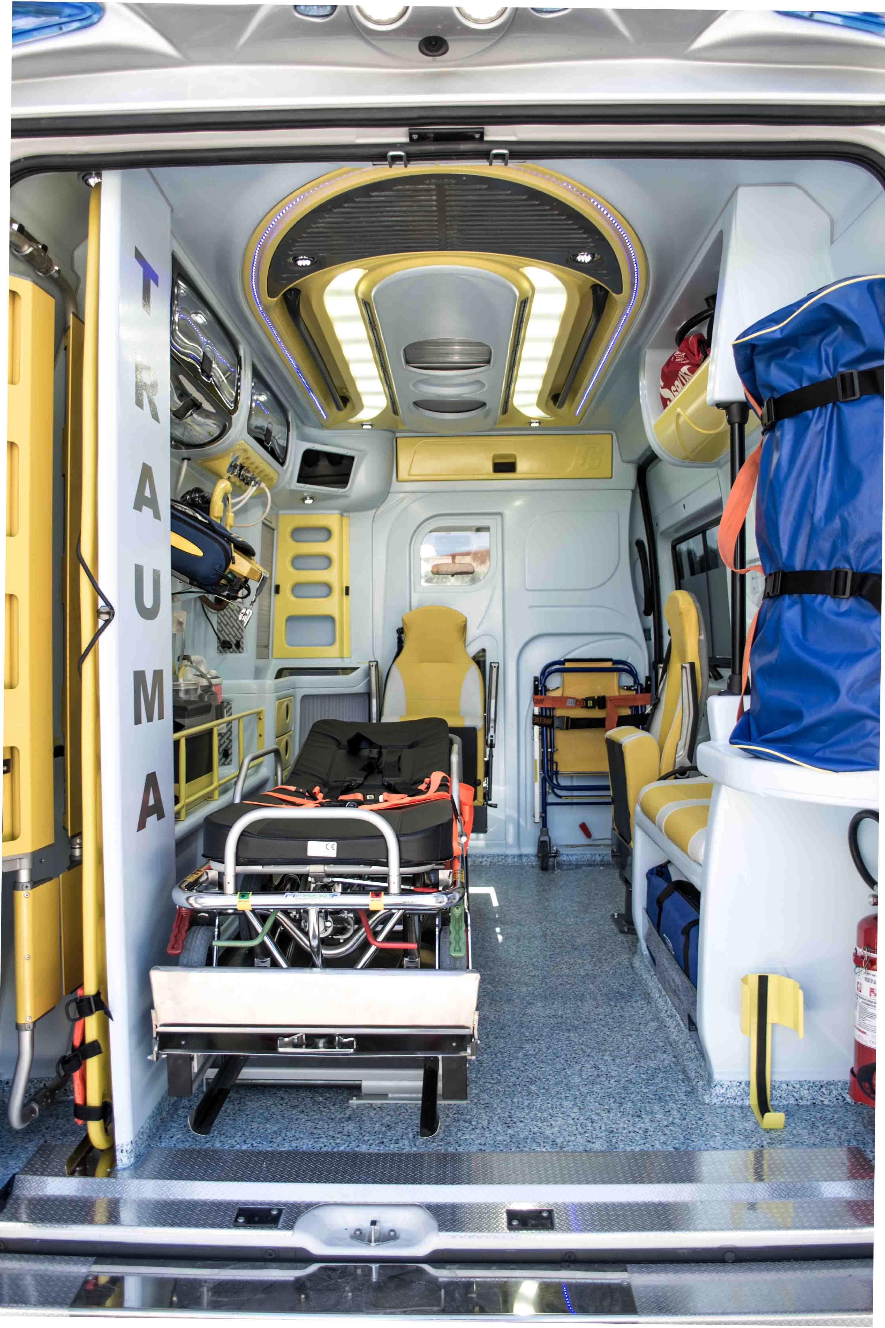 Ambulance Fiat Ducato 2015 built by Bollanti Healthcare Vehicles